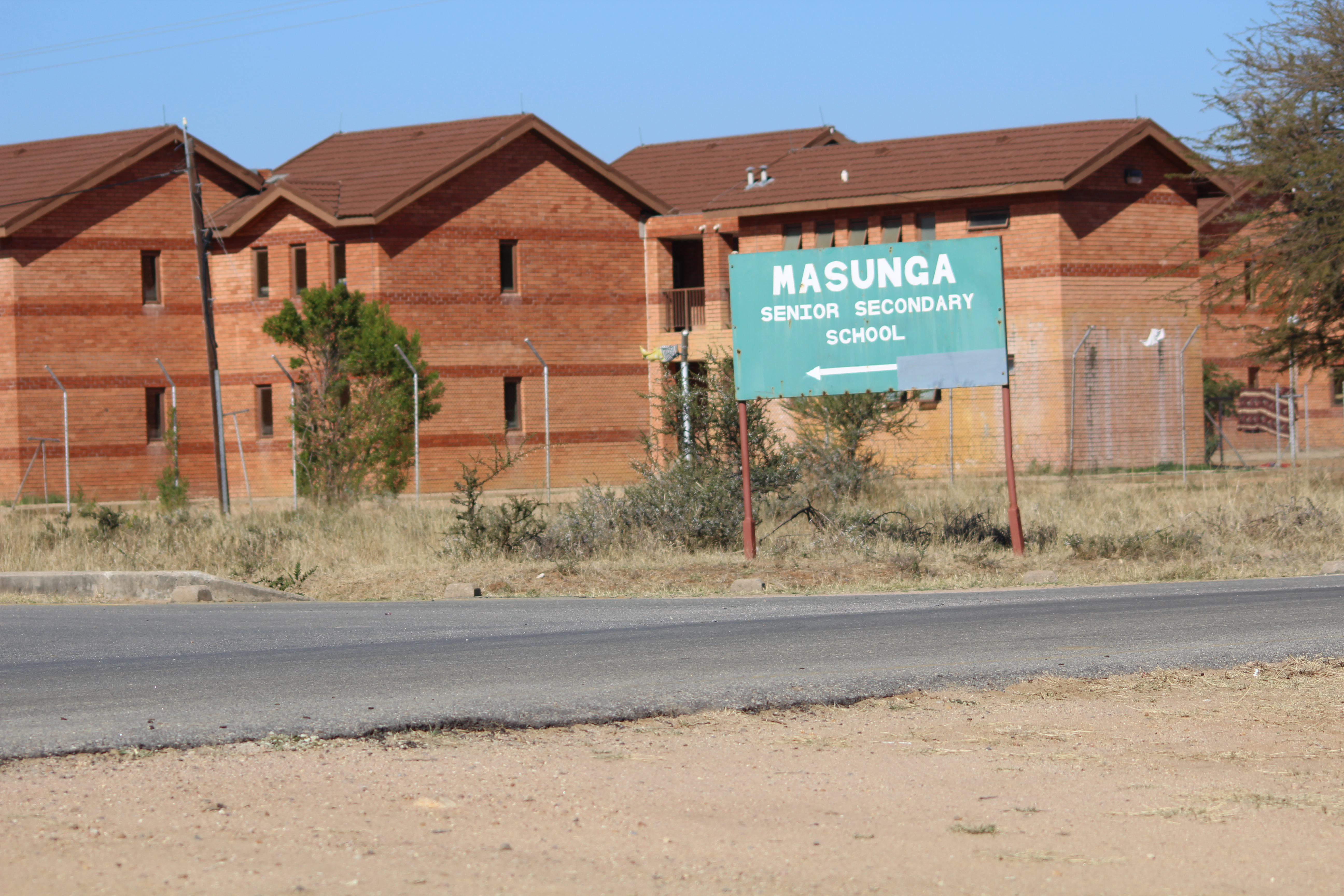 Masunga Senior Secondary School, photo taken north of the main gate.